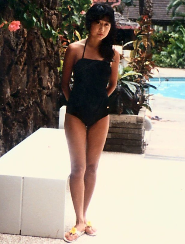 One Piece Swimwear #2; Sheraton Princess Kaiurani Hotel (Honolulu, Hawaii)